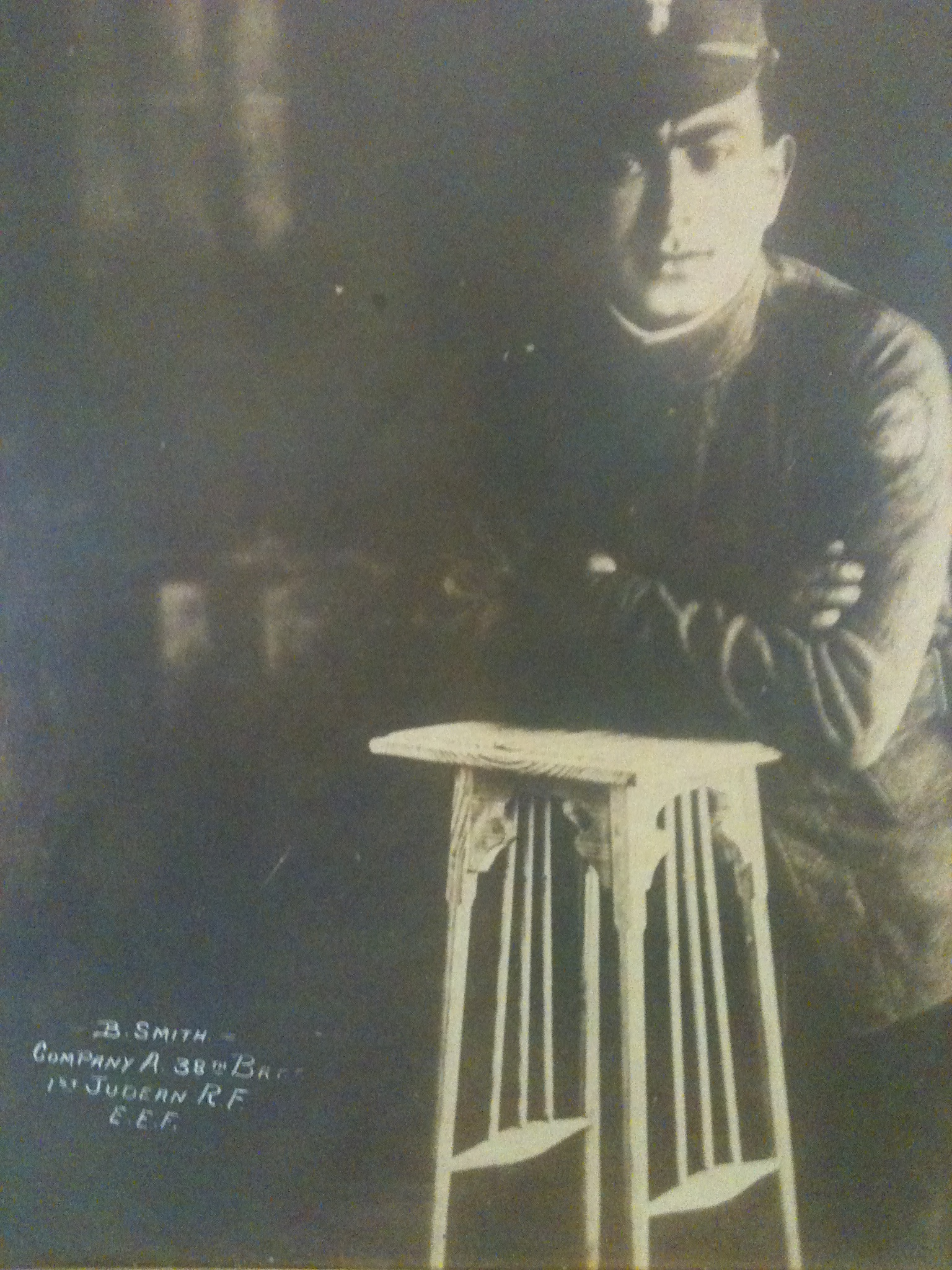 My grnadfather Benjamin Smith, a soldier in the jewish battalion #38 (as clearly indicated on the original picture) in the uniform incl. the Magen David on his shoulder.